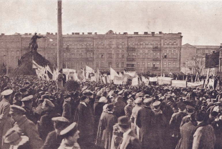 A patriotic demonstration in Kyiv in 1917